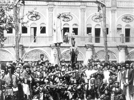 hanging of Sheikh Fazlollah Nuri